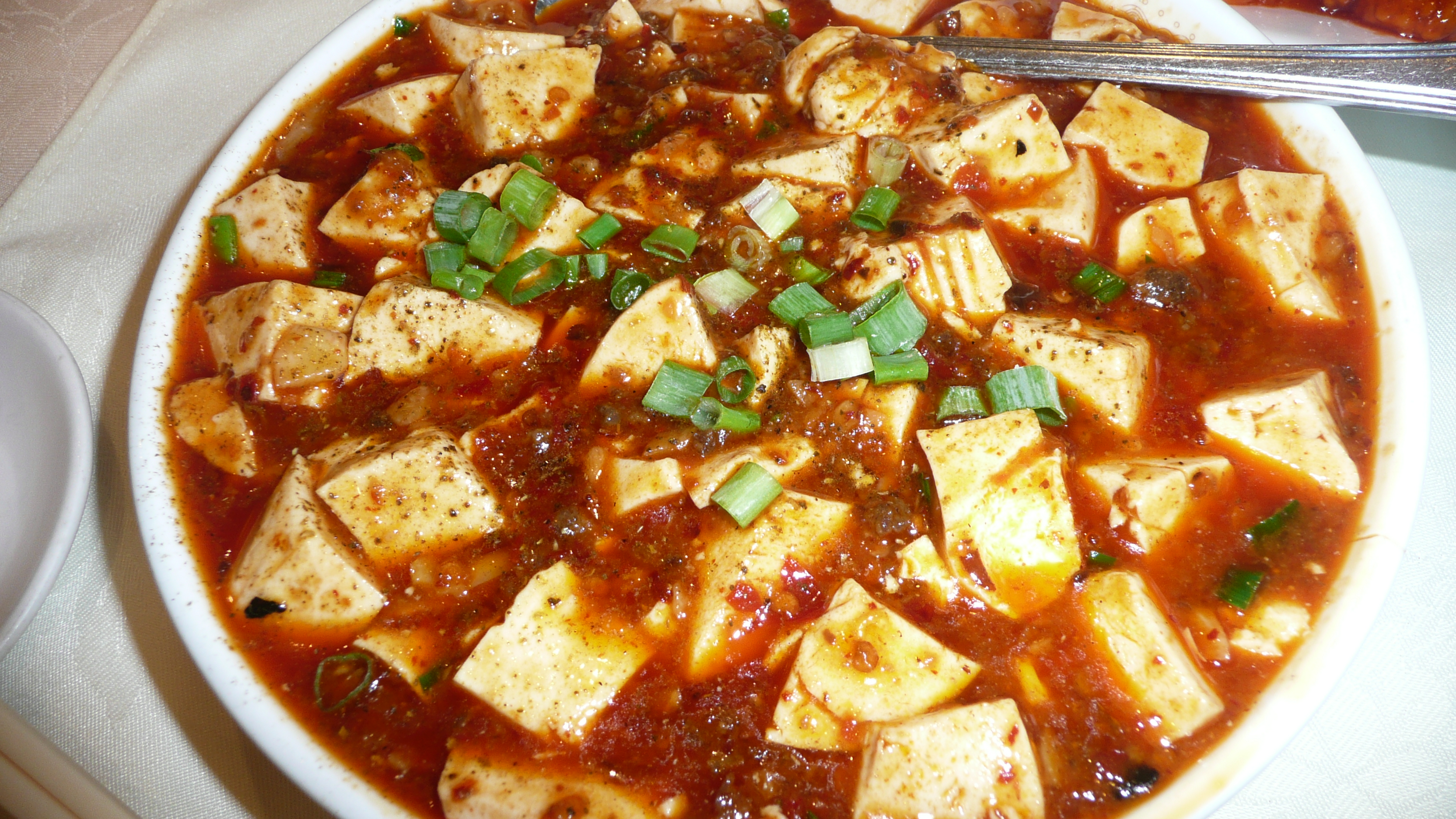 Cuisine of China, Hongkong